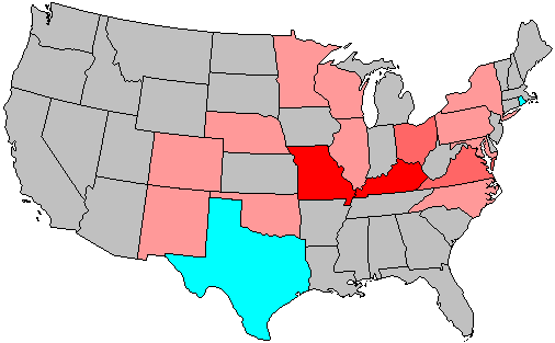 Summary of party change of U.S. house seats in the 1928 House election. Stripes indicate a tie between the gains of two or more parties. Legend: 6+ Democratic seat pickup 3-5 Democratic seat pickup 1-2 Democratic seat pickup 1-2 Republican seat pickup 3-5 Republican seat pickup 6+ Republican seat pickup 1-2 Progressive seat pickup 3-5 Progressive seat pickup 1-2 Farmer-Labor seat pickup 3-5 Farmer-Labor seat pickup Note: years ending in 2 may have inconsistent results due to redistricting.